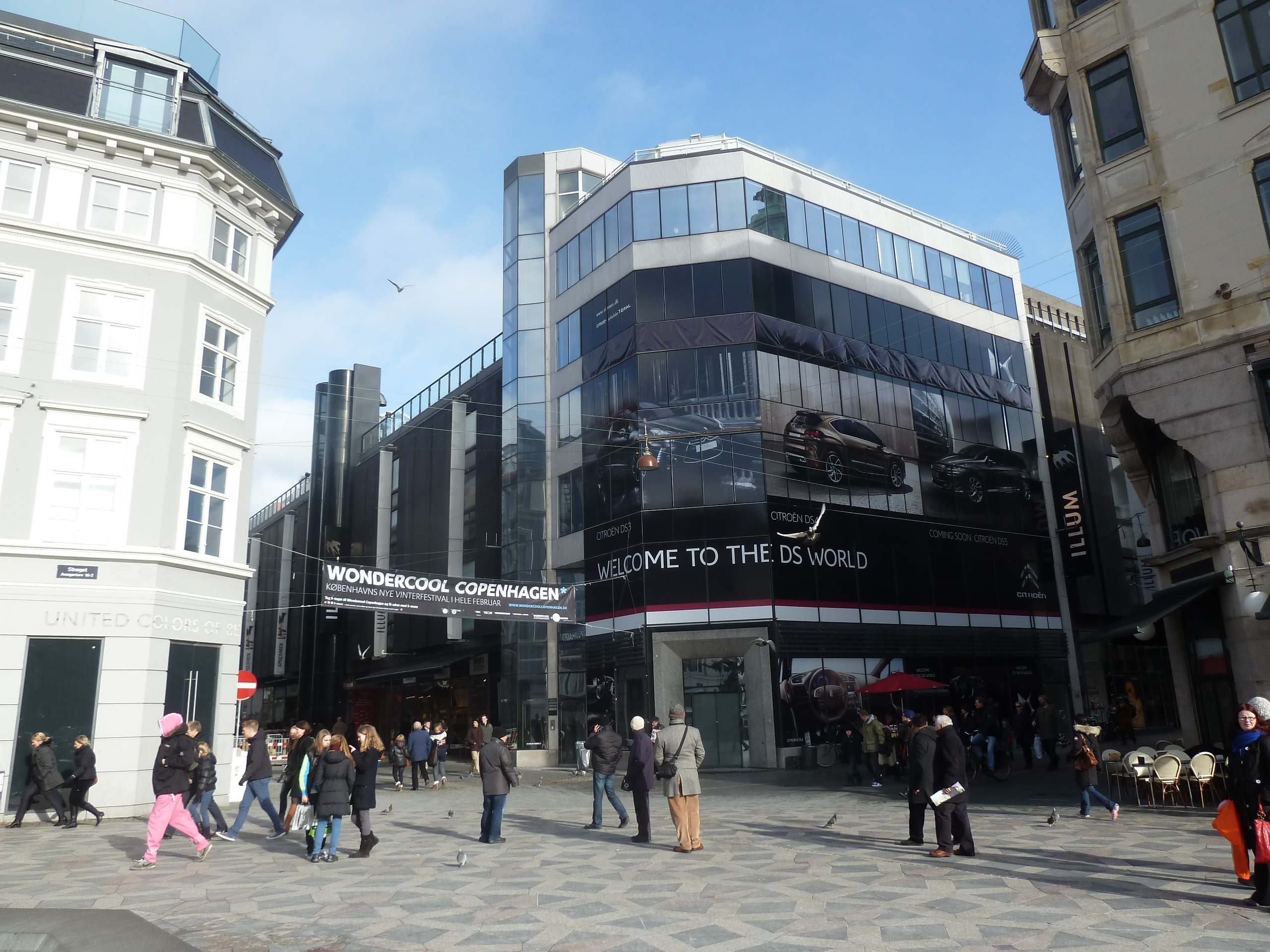 The department store Illum in Indre By in Copenhagen.